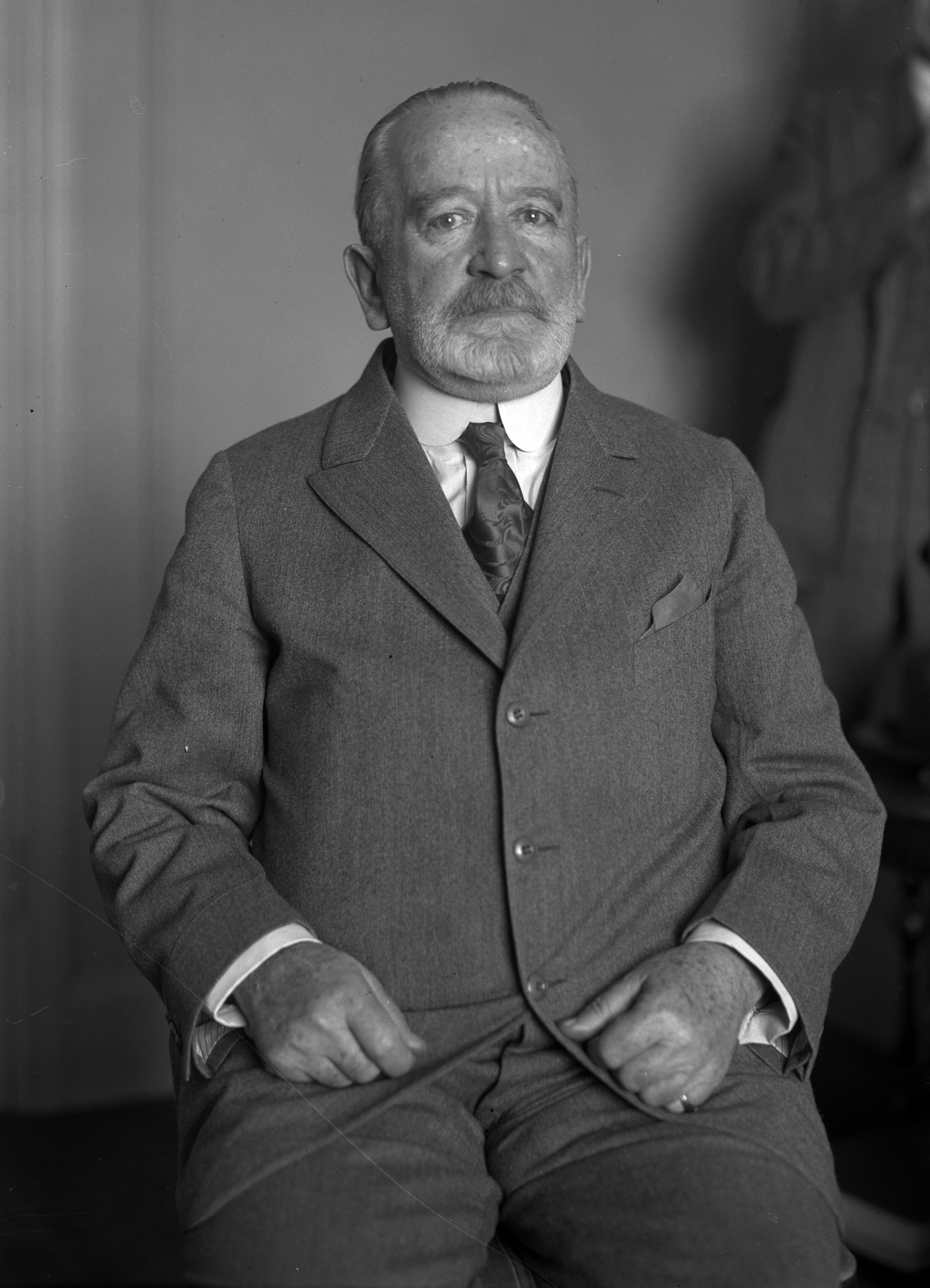 California Senator James D. Phelan sitting in chair, circa 1920